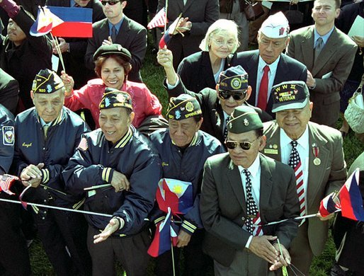 World War II Filipino-American veterans cheer for Presidents Bush and Arroyo. "I am proud of the contributions that Filipinos and Filipino Americans make to the American economy and society," said President Arroyo in her remarks. "In a quiet, but equally substantive way, we can compare it to the contribution made by Philippine World War II veterans to the defense of our common freedom and security."